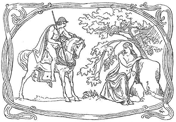 An image from Skírnismál where Skírnir encounters an unnamed herdsman sitting on a mound, though the mound appears here to be a few stones.